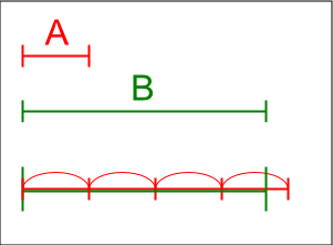 Illustration of the Archimedean property